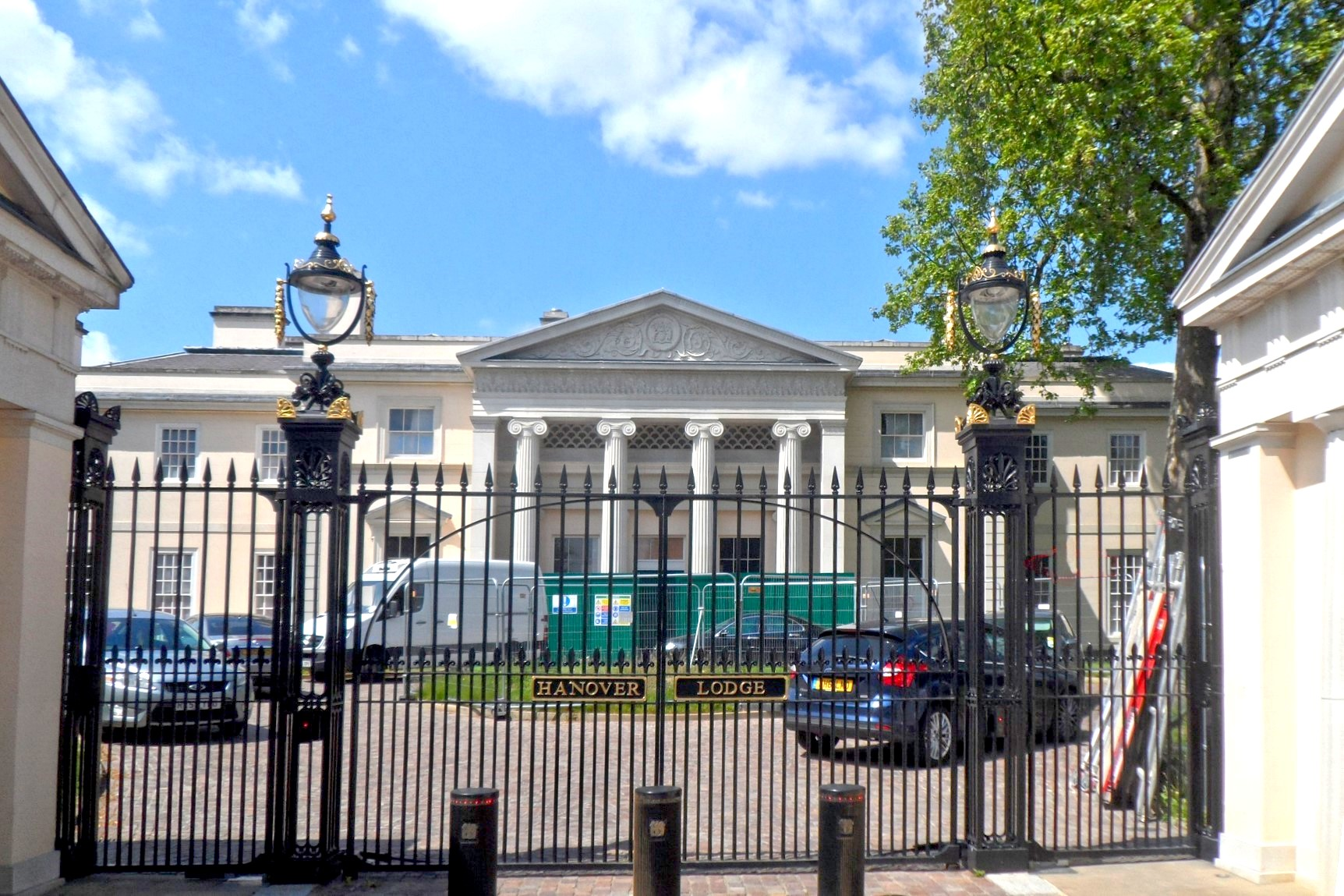 Here lived THOMAS COCHRANE Earl of Dundonald 1775-1860 and later DAVID EARL BEATTY O.M. 1871-1936 Admirals